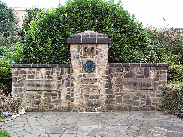 Memorial to Samuel Marsden (detail) In Town Street, Farsley. See accompanying photo for the text of the inscriptions.